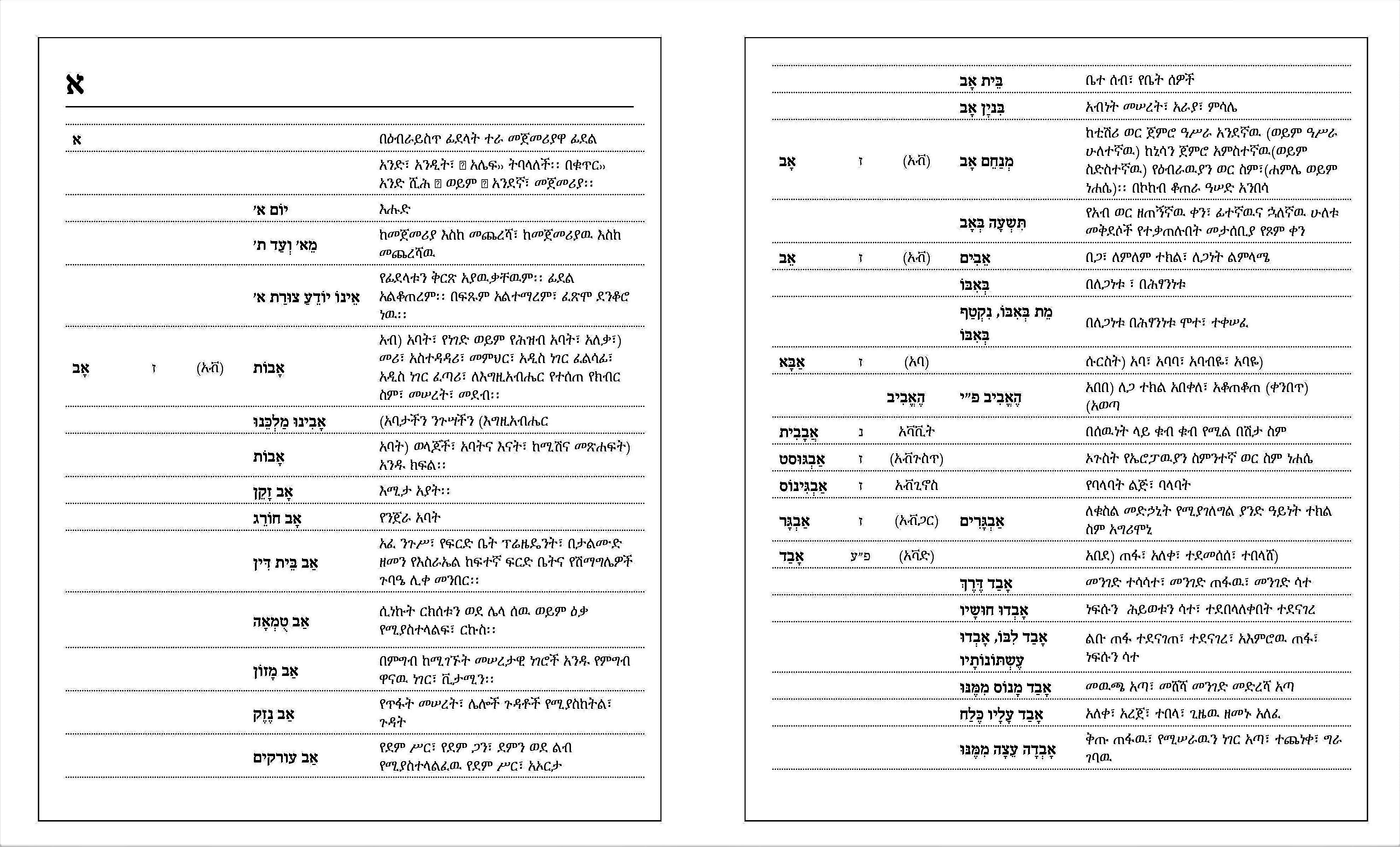 Two pages of the Hebew-Amharic Dictionary compiled by Yona Bogale